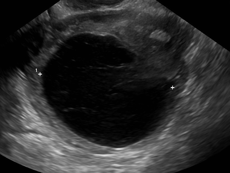 haemorrhagic ovarian cyst in ultrasound